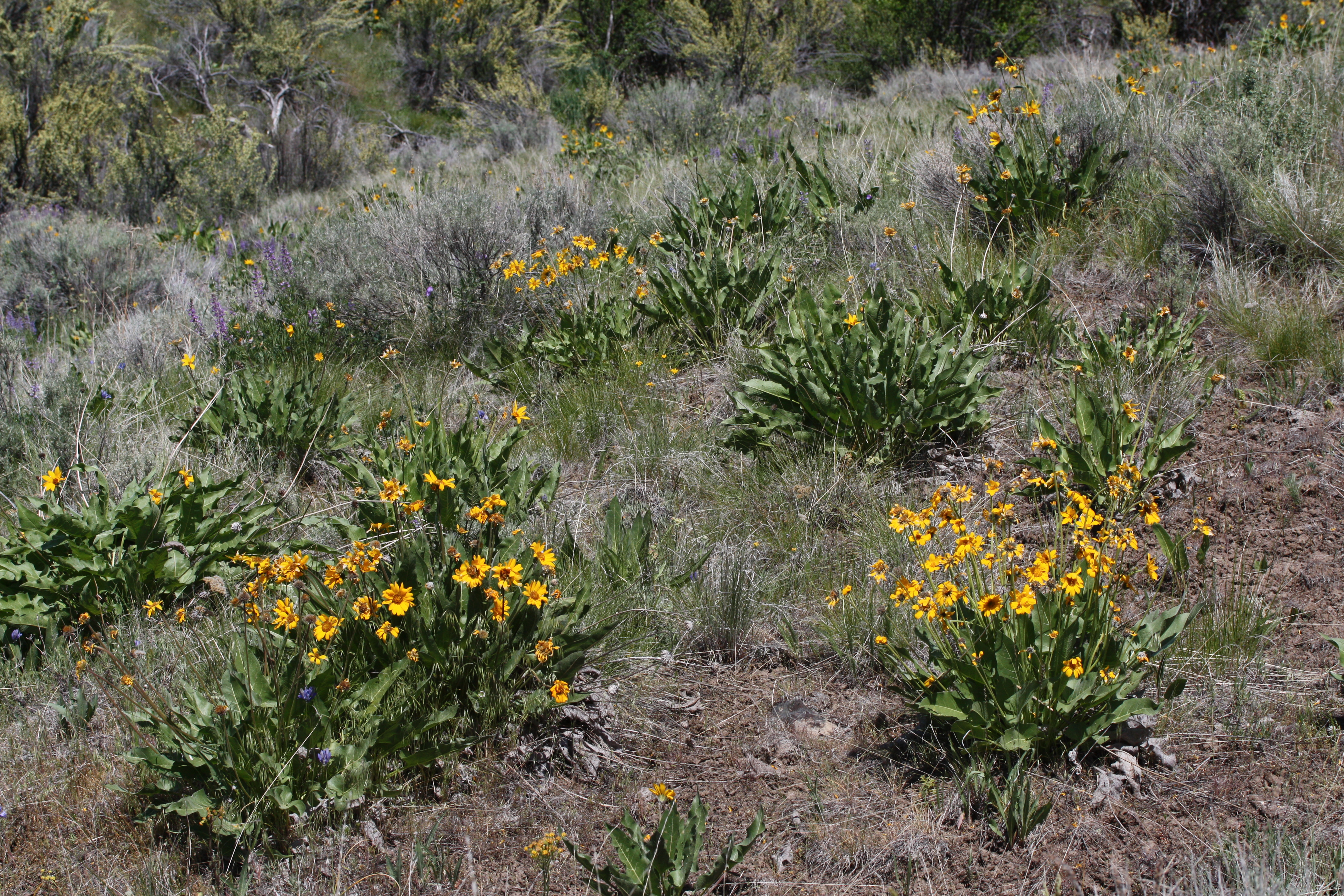 Arrowleaf Balsamroot